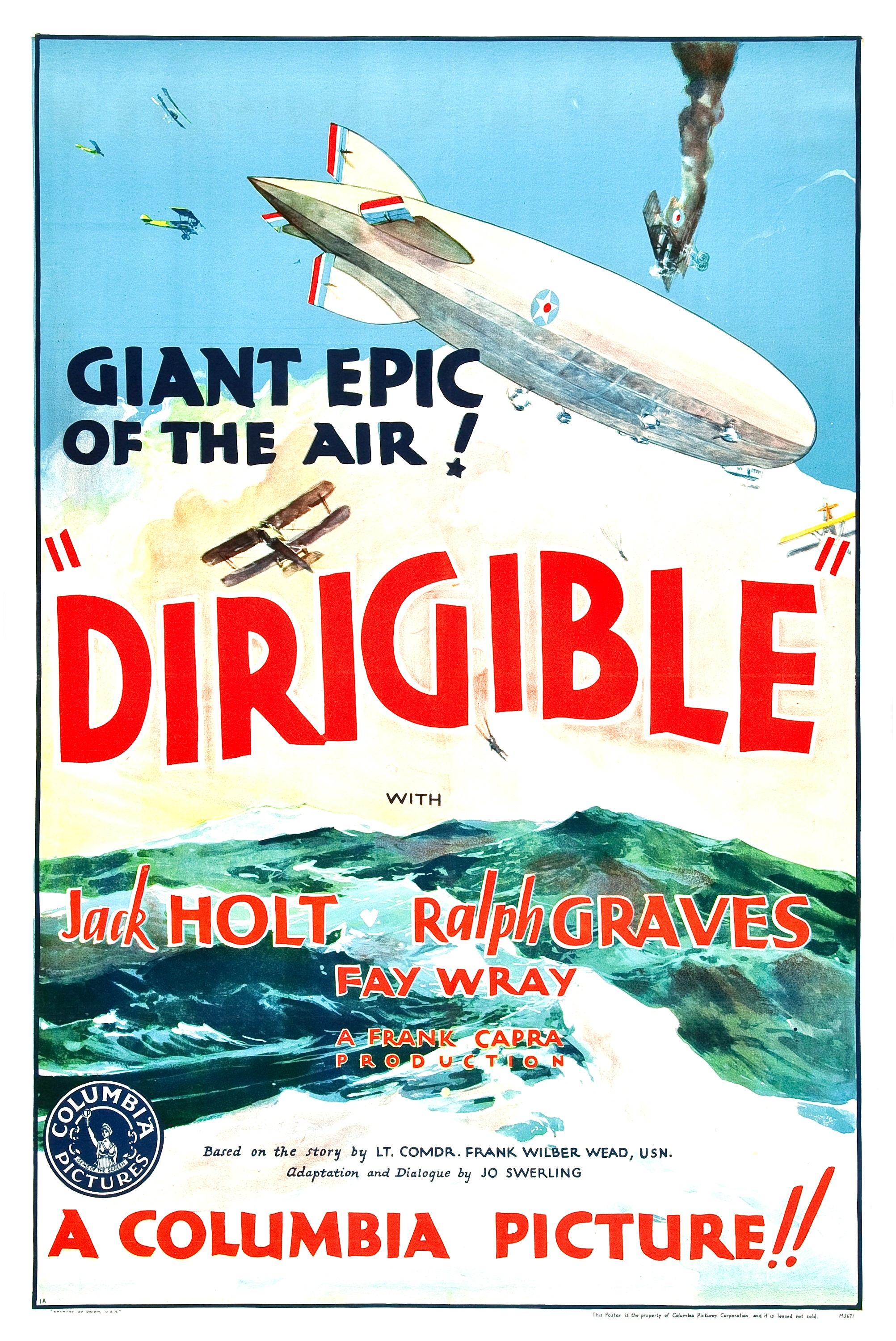 Poster for the 1931 film Dirigible. There are no copyright markings pertaining to the image as can be seen in the links above. At bottom is 1A, Country of origin USA, this poster is the property of Columbia Pictures Corporation and is leased not sold, and M3671.